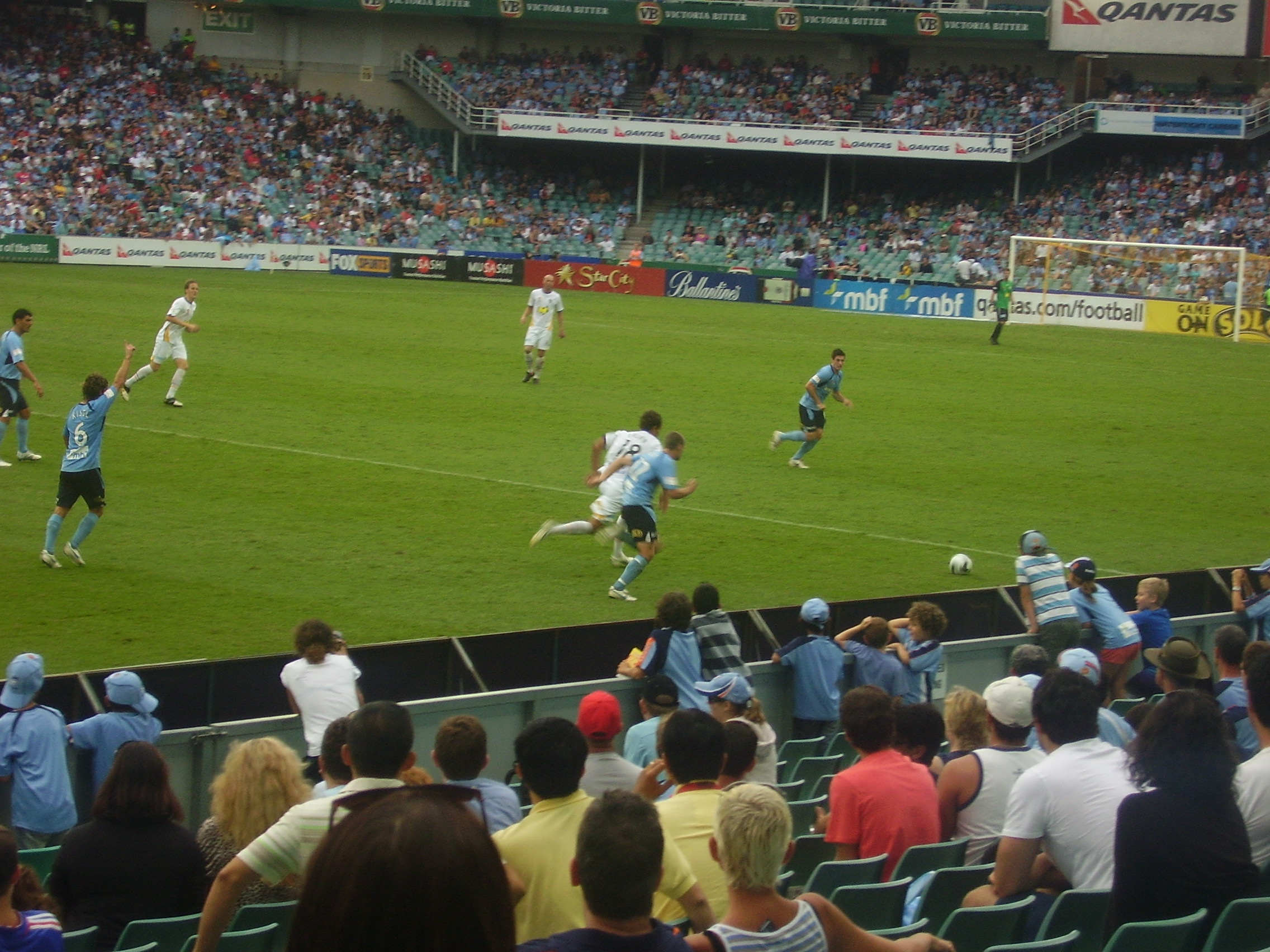 Shannon Cole (12, SFC) contests for possession with James Brown (18, GCU) during their round 23 clash at the Sydney Football Stadium.